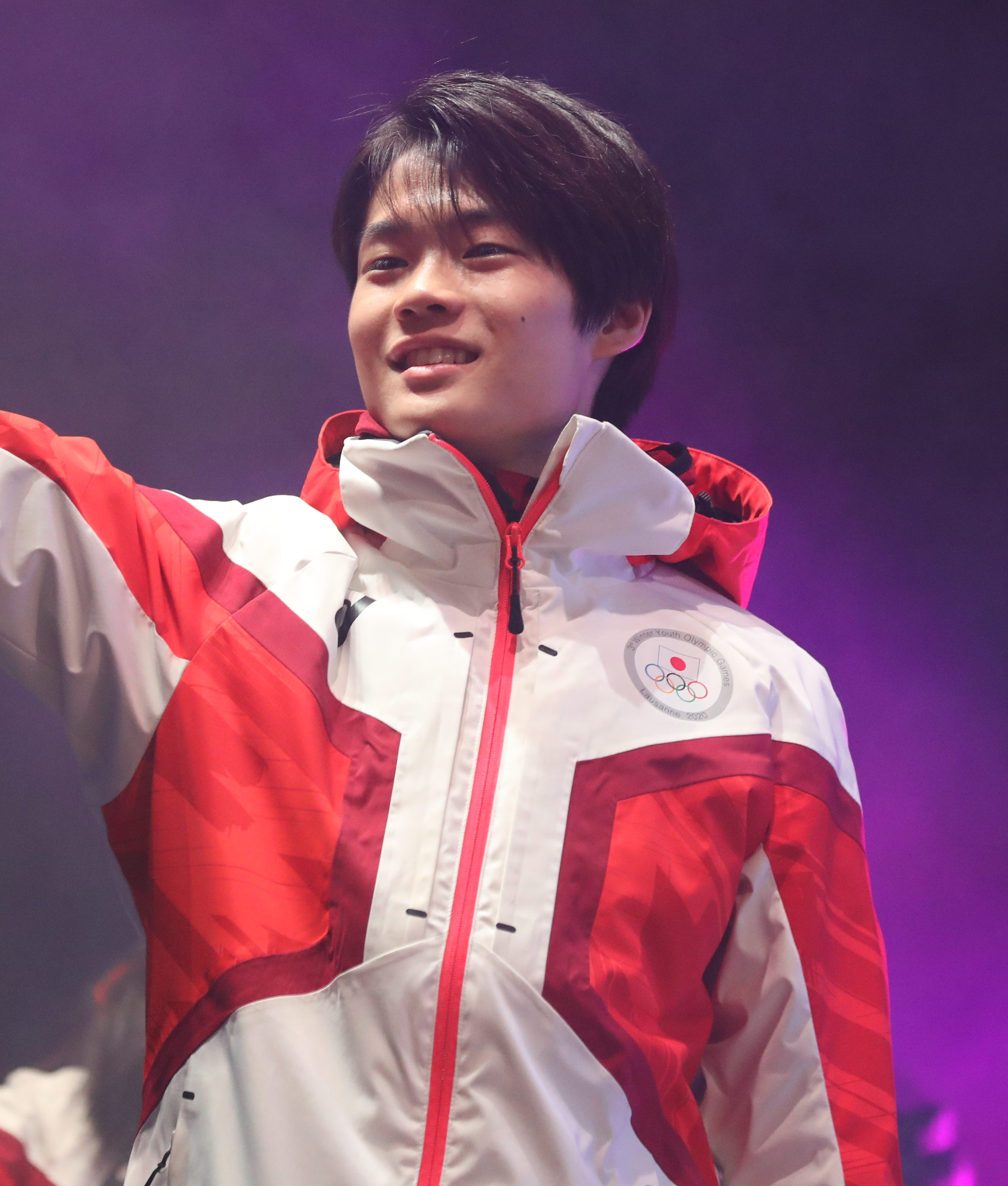 Medal Ceremony Day 6, 2020 Winter Youth Olympics in Lausanne